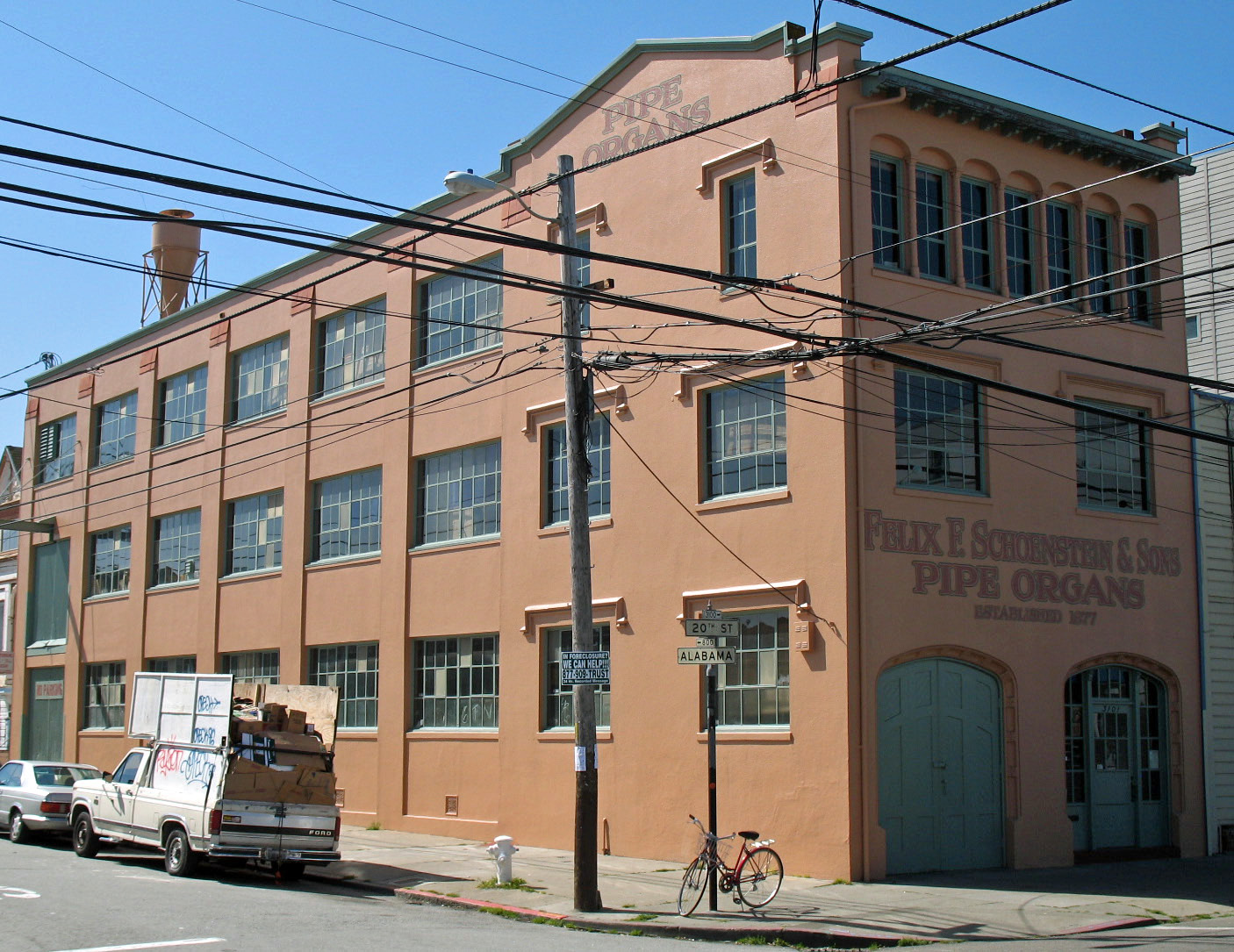 National Register of Historic Places in San Francisco, California. Schoenstein & Sons Pipe Organ Company, 3101 20th St, San Francisco, California, USA. Photographed 2008-03-23 by Mike Hofmann from the northeast corner of Alabama and 20th Sts.